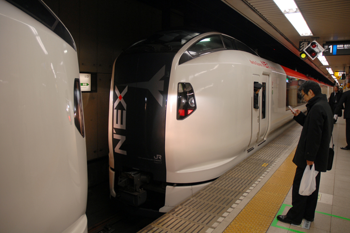 Two JR East E259 series EMU sets on Narita Express services dividing at Tokyo Station